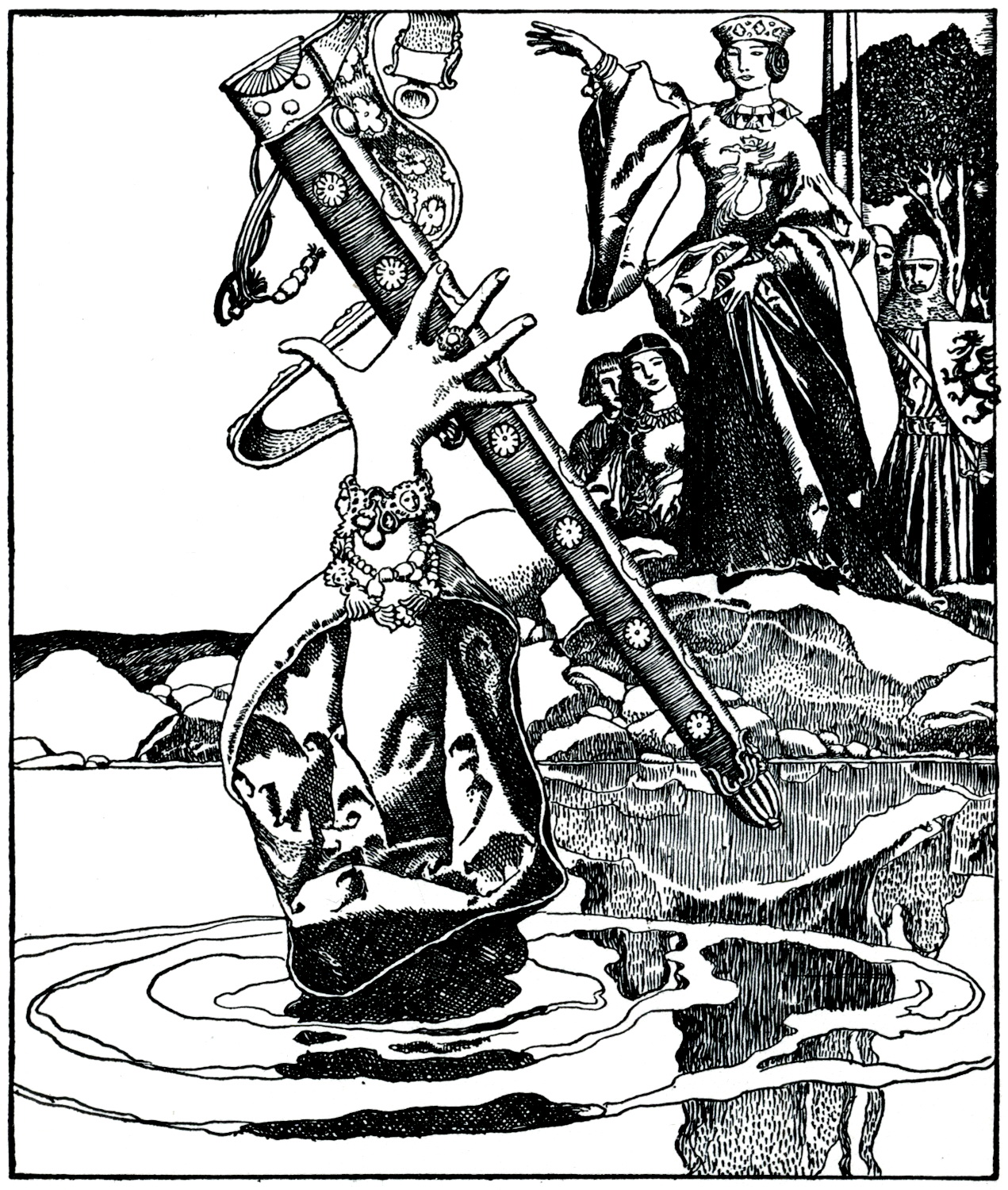 Howard Pyle illustration from the 1903 edition of The Story of King Arthur and His Knights scanned and archived at where it was marked as Public Domain.